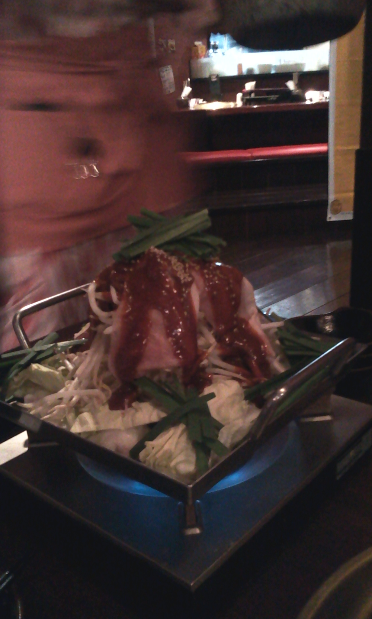 2011-03-16 Dinner at USAGI MATTO branch(もつ鍋うさぎ松任店), Korean BBQ & Japanese NABE.